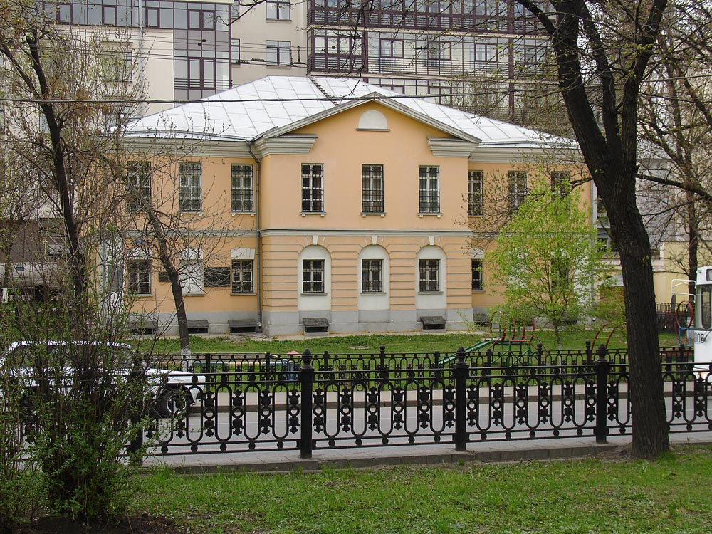 19/2, Petrovsky Boulevard, Moscow